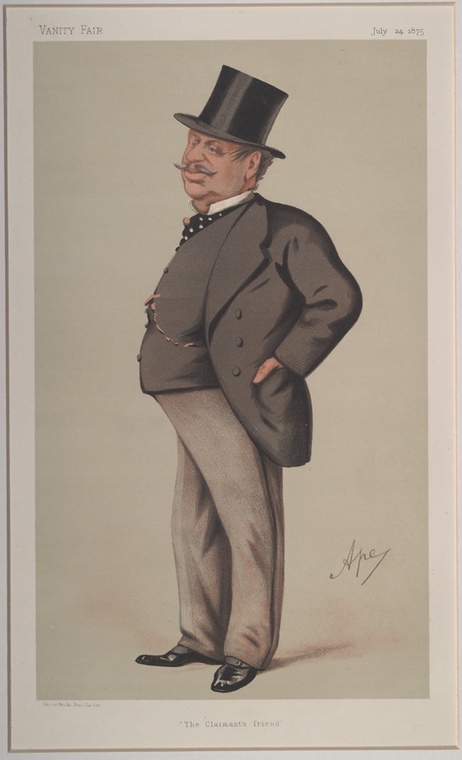 Men of the Day No.107: Caricature of Mr Guildford Onslow. Caption reads: "The Claimant's Friend"